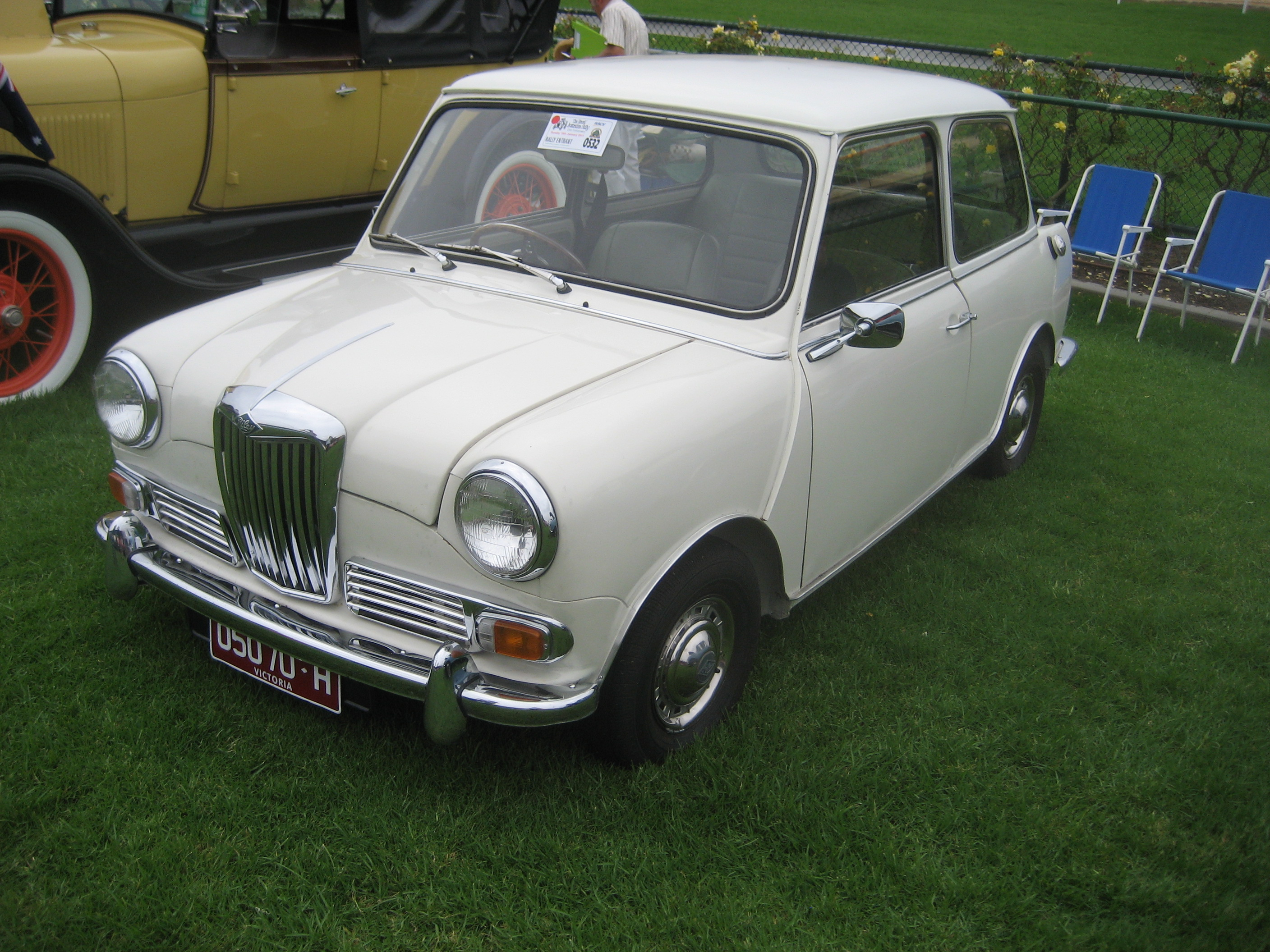 Built from 1961-69.